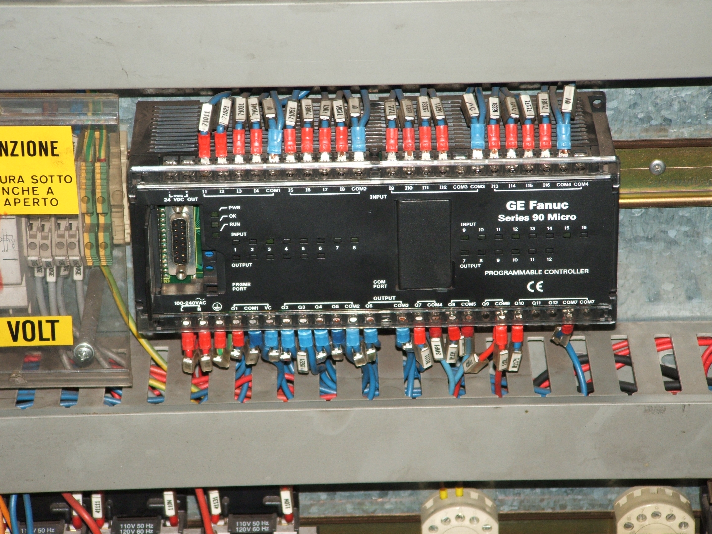 Fanuc PLC. in a double DC Drive.